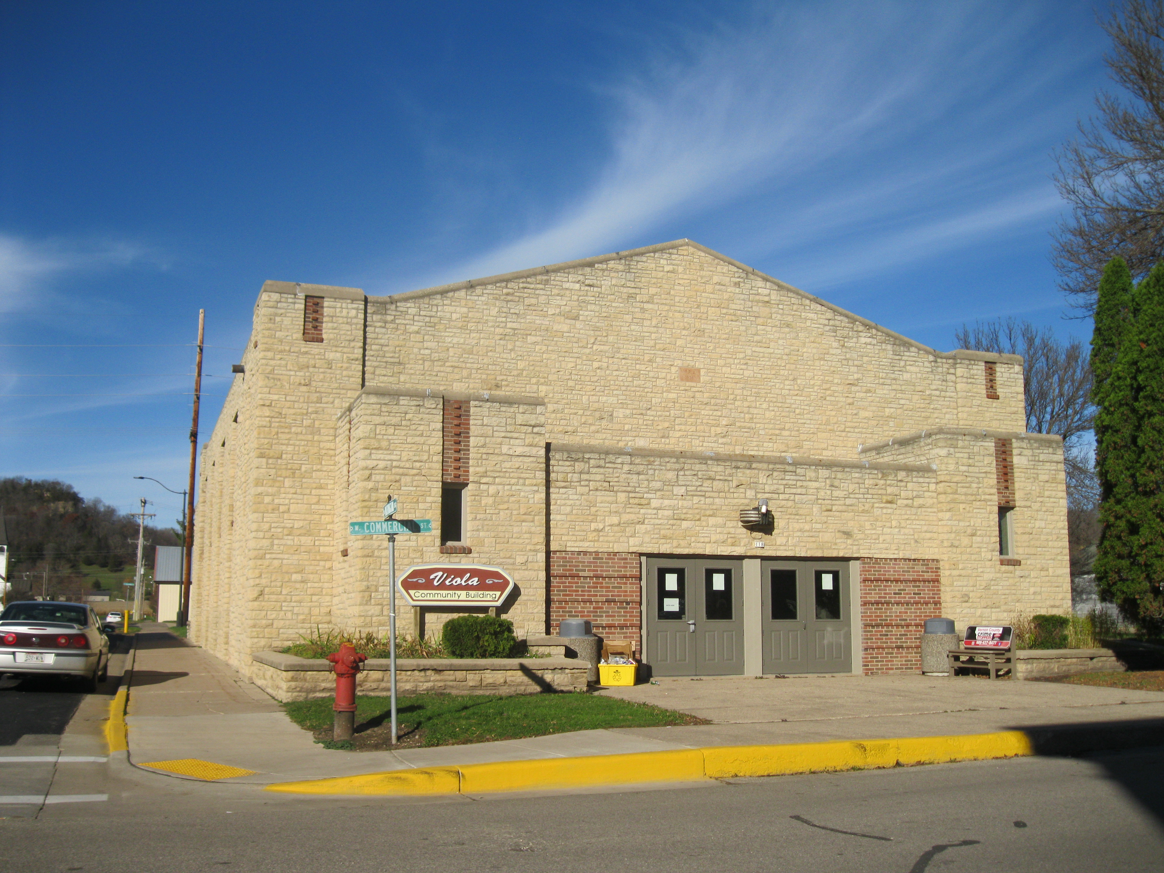 Viola Community Center in Viola, Wisconsin.